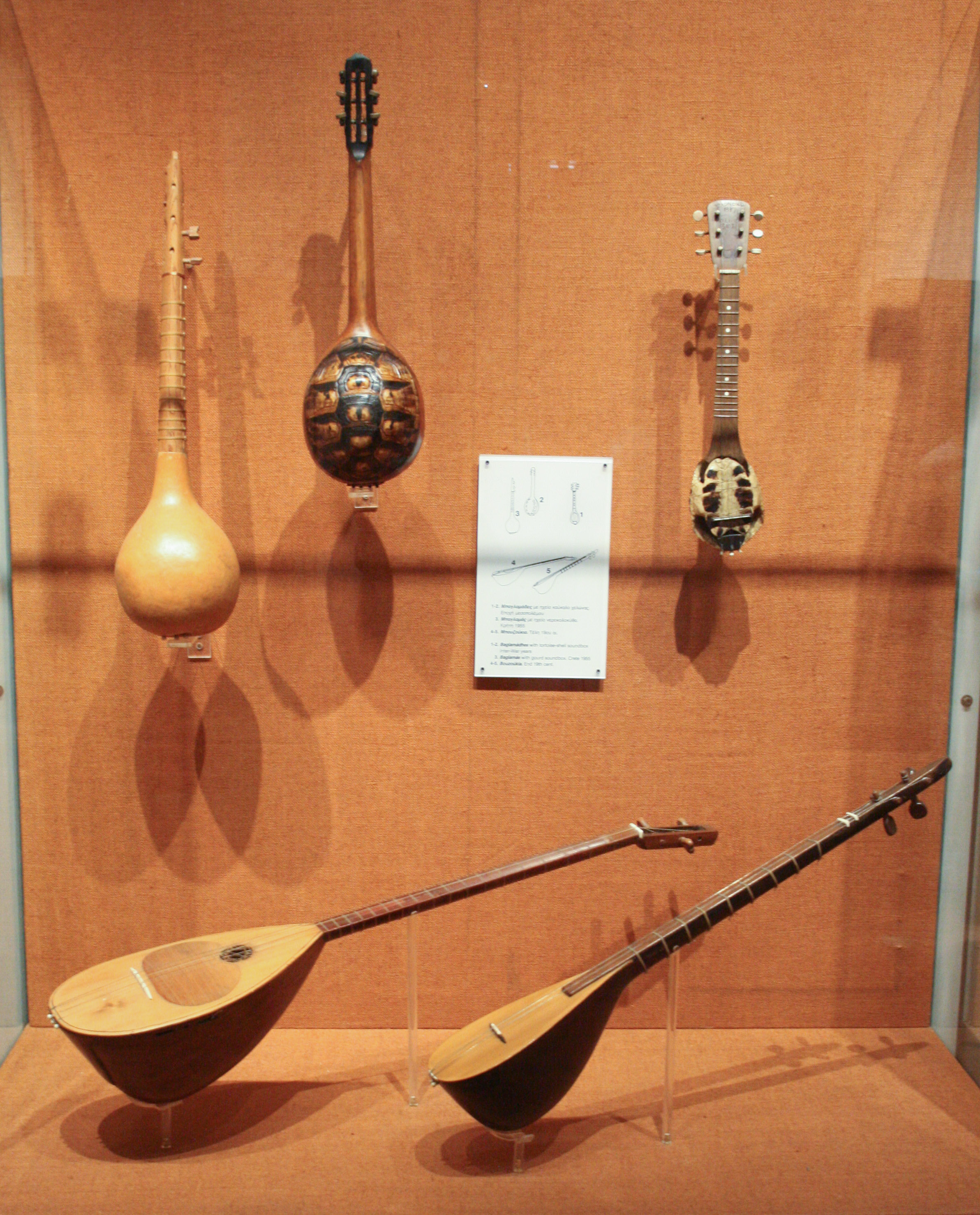 Bouzoukis in the Museum of Greek Folk Instruments in Athens